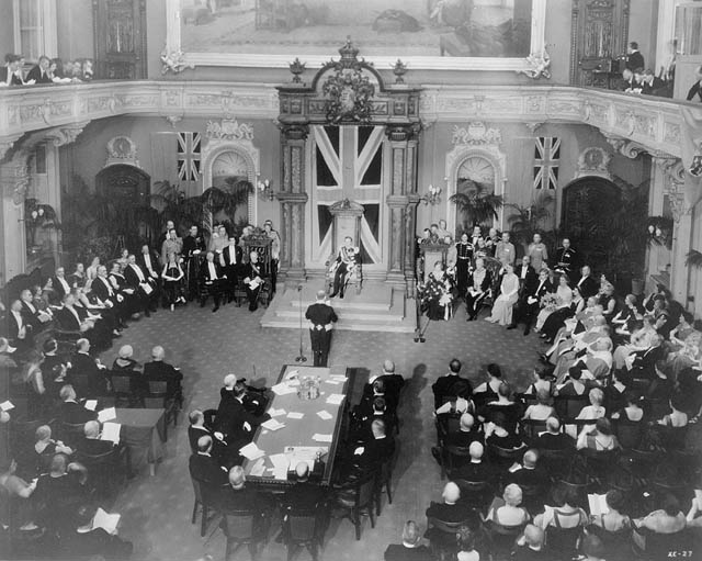 Rt. Hon. W.L. Mackenzie King reading an address during the installation of Lord Tweedsmuir as Governor General of Canada. Quebec City, Quebec, Canada.